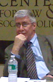 Jeremy Waldron at the Baldy Center for Law & Social Policy